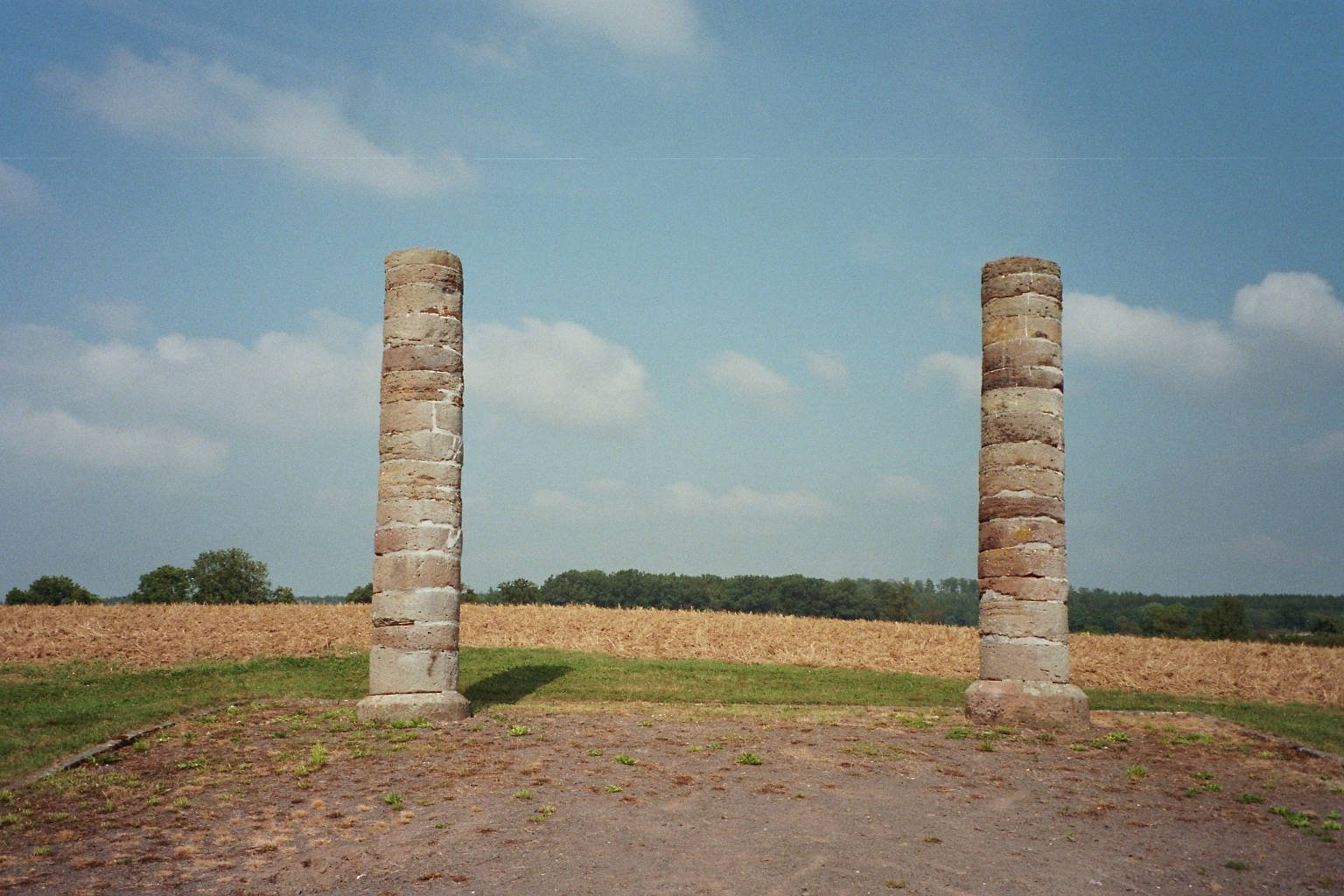 Remnants of a gallow nearby of Herbstein, Vogelsberg, Germany.